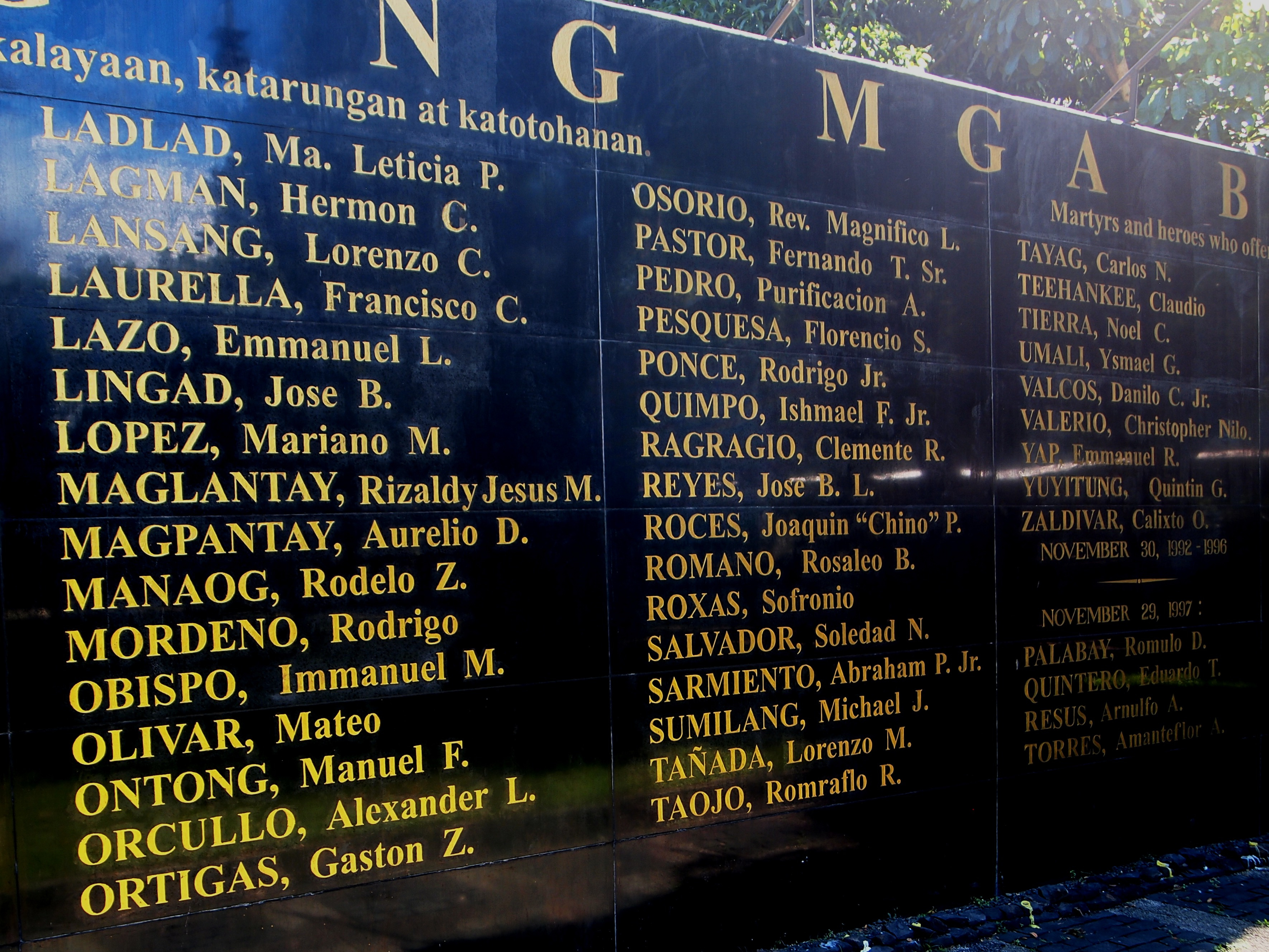 Detail of the Wall of Remembrance at the Bantayog ng mga Bayani, photographed at noon on 15 November 2018, showing names from the first batch of Bantayog Honorees, from Ladlad to Zaldivar